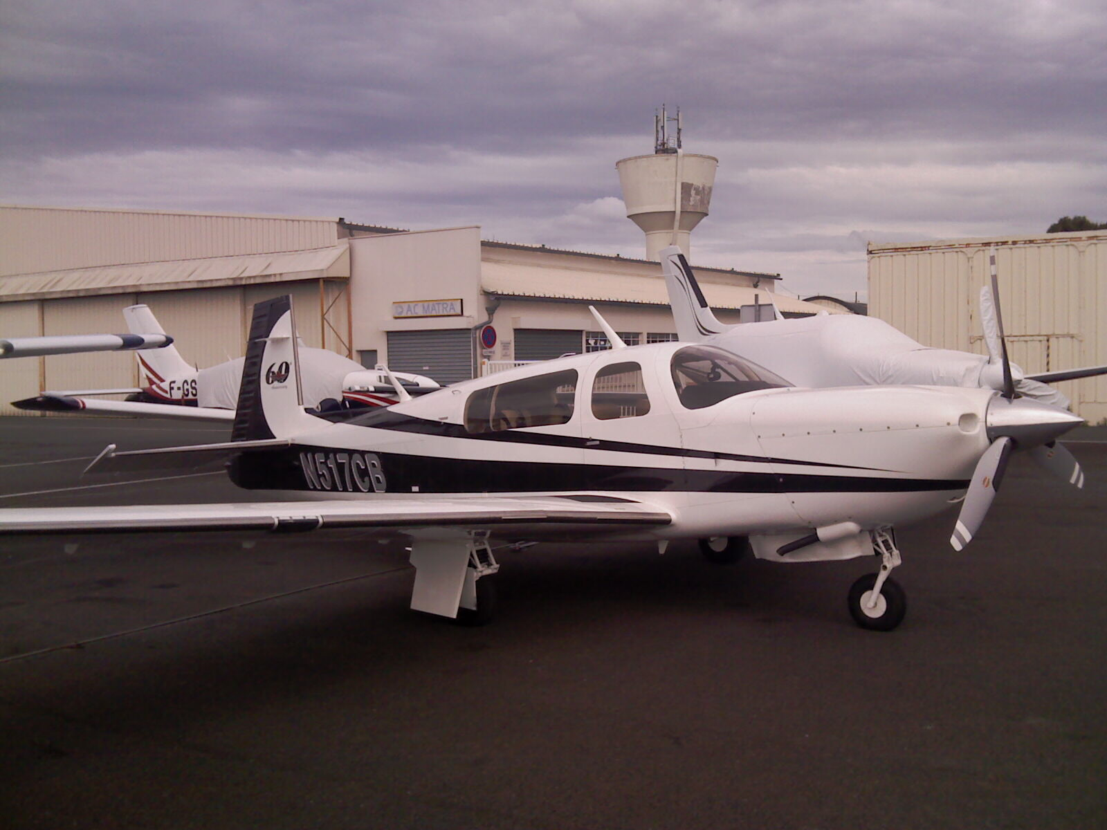 Mooney 20R